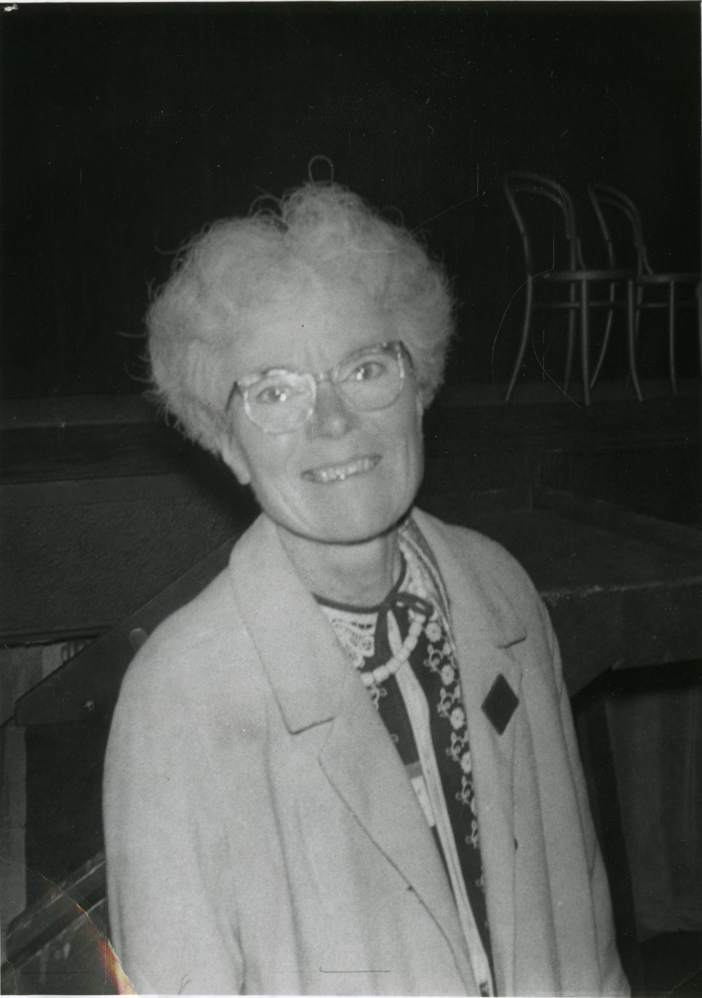 Creator: Livingstone, F. C Subject: Lonsdale, Kathleen Dame 1903-1971 British Association for the Advancement of Science Type: Black-and-white photographs Date: 1968 Topic: Chemistry Women scientists Local number: SIA Acc. 90-105 [SIA2008-5424] Summary: Irish-born chemist Kathleen Yardley Lonsdale (1903-1971) was made Dame Commander of the Order of the British Empire in 1956 for her work in x-ray crystallography; in 1968, she became the first woman elected as President of the British Association for the Advancement of Science (BAAS). The caption to this photograph taken by F.C. Livingstone said that "Dame Lonsdale was the wee grandmother who is the new president of the BAAS Cite as: Acc. 90-105 - Science Service, Records, 1920s-1970s, Smithsonian Institution Archivess Persistent URL:Link to data base record Repository:Smithsonian Institution Archives View more collections from the Smithsonian Institution.